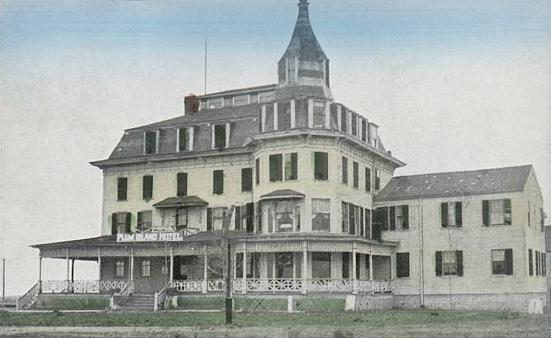 Plum Island Hotel, Plum Island, MA; from a c. 1910 postcard.